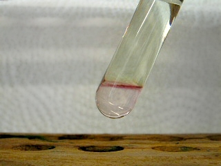 positive check for Nitrate using sulfuric acid and iron sulfate